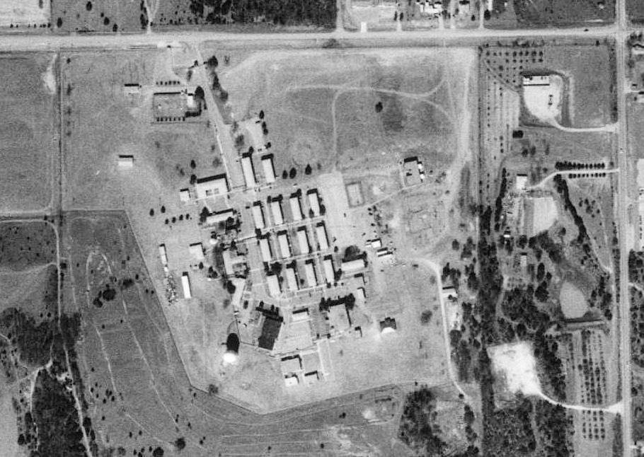 USGS orthophoto of Oklahoma City Air Force Station, Oklahoma